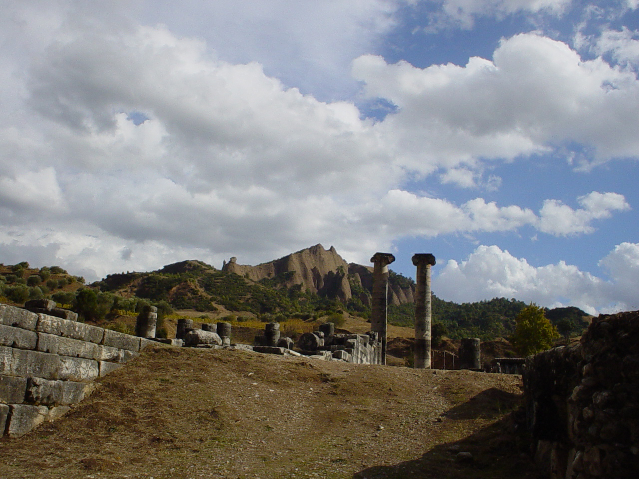 Ruins of Sardis, the capital of Lydia. (Sart) Turkey.